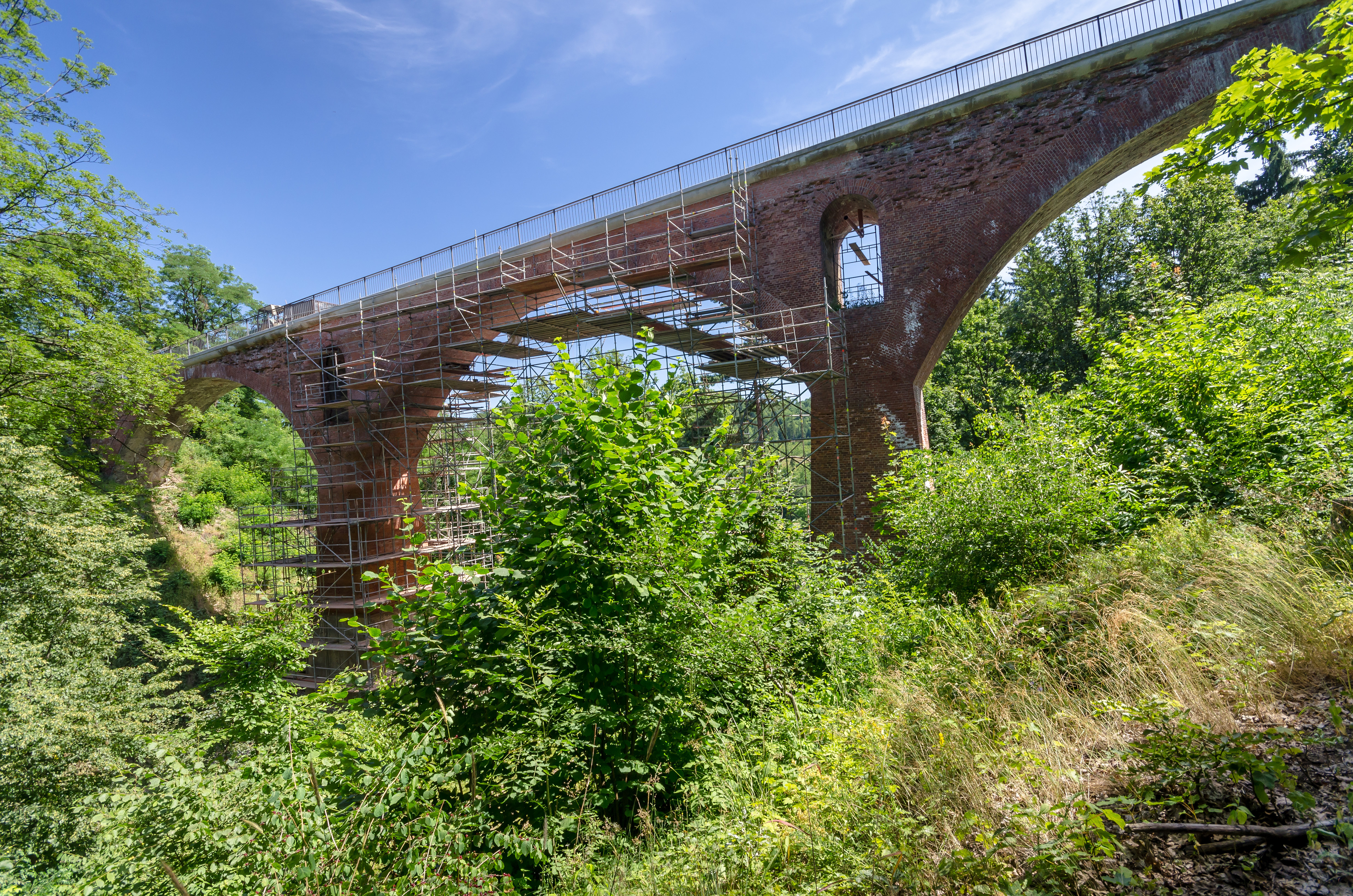 Railway viaduct in Żdanów, Poland